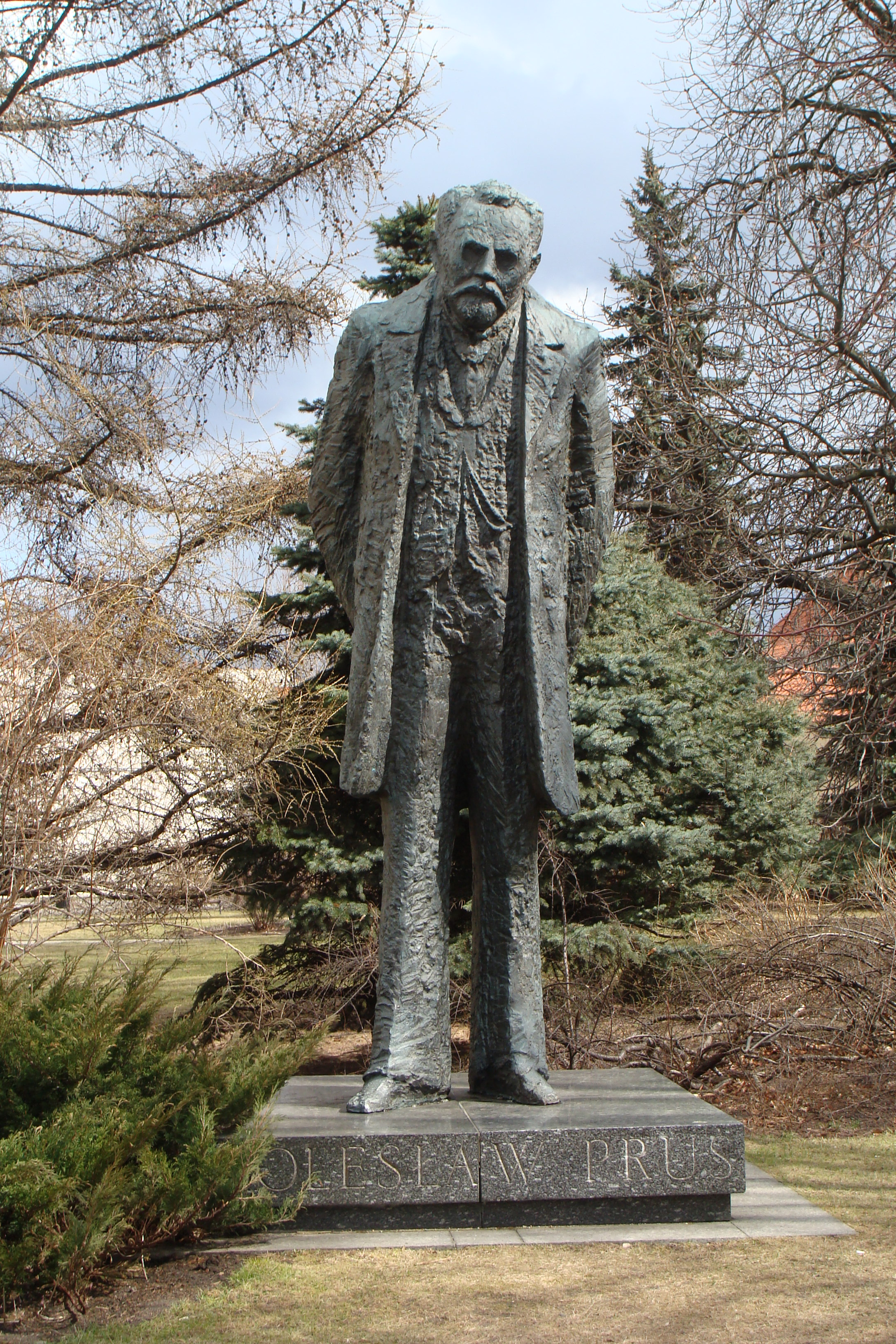 Statue of polish writer Bolesław Prus, Warsaw, Poland